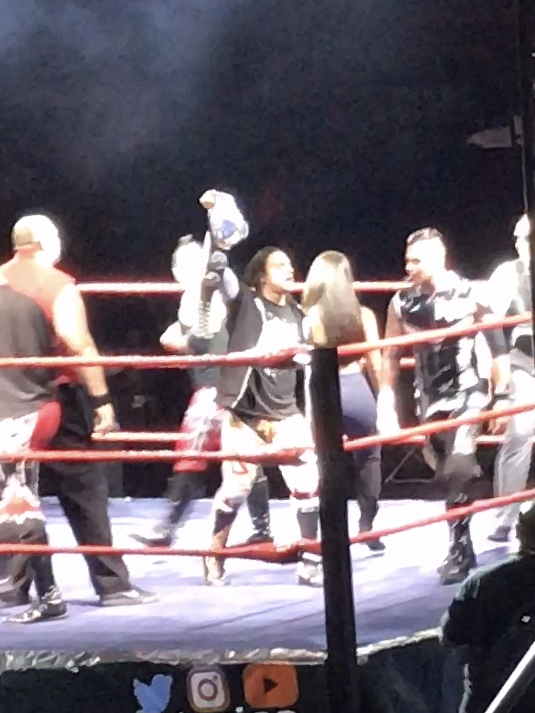 Electro holding the IWA World Heavyweight Championship.